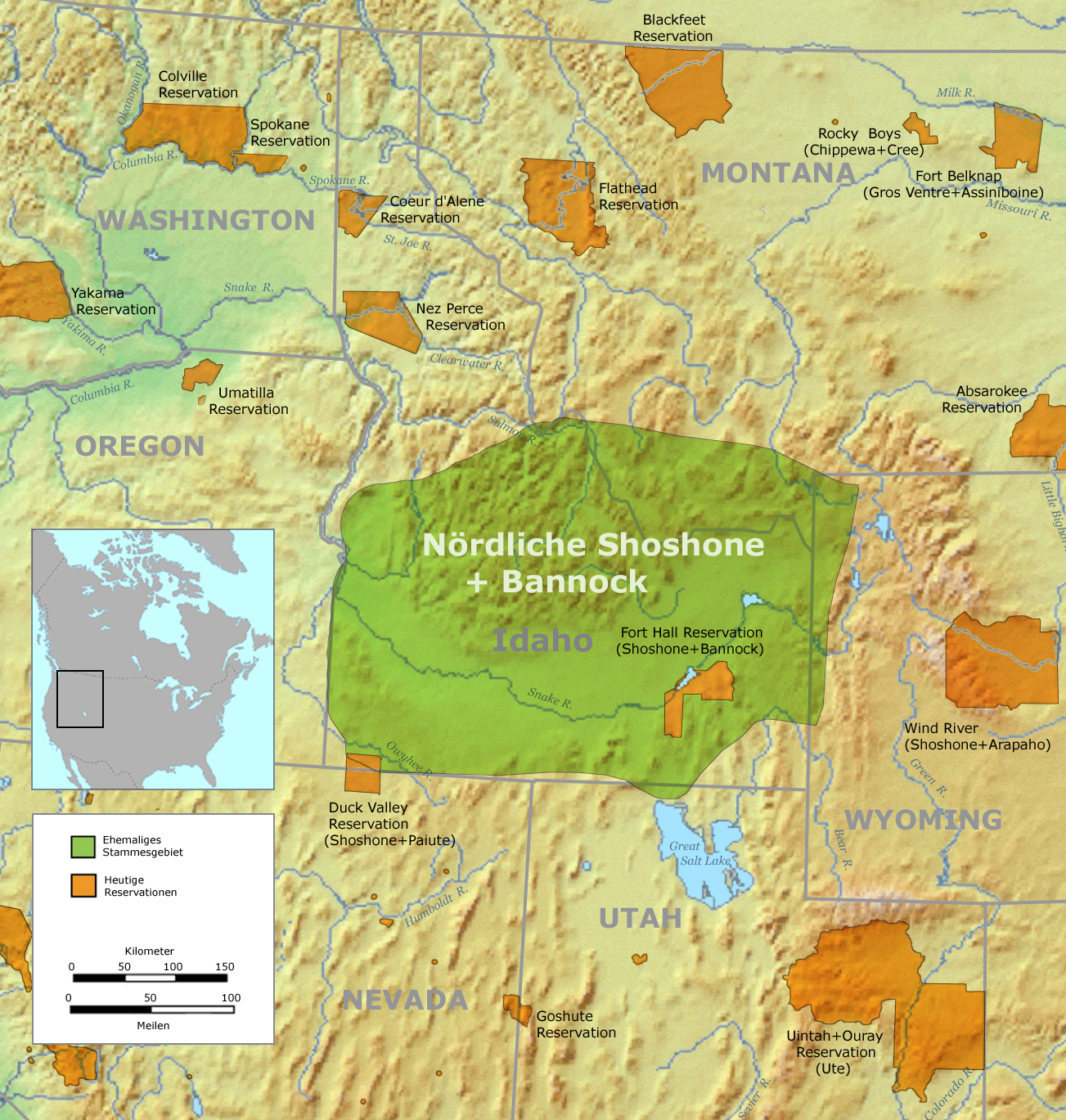 Tribal territory of Bannock and Northern Shoshone